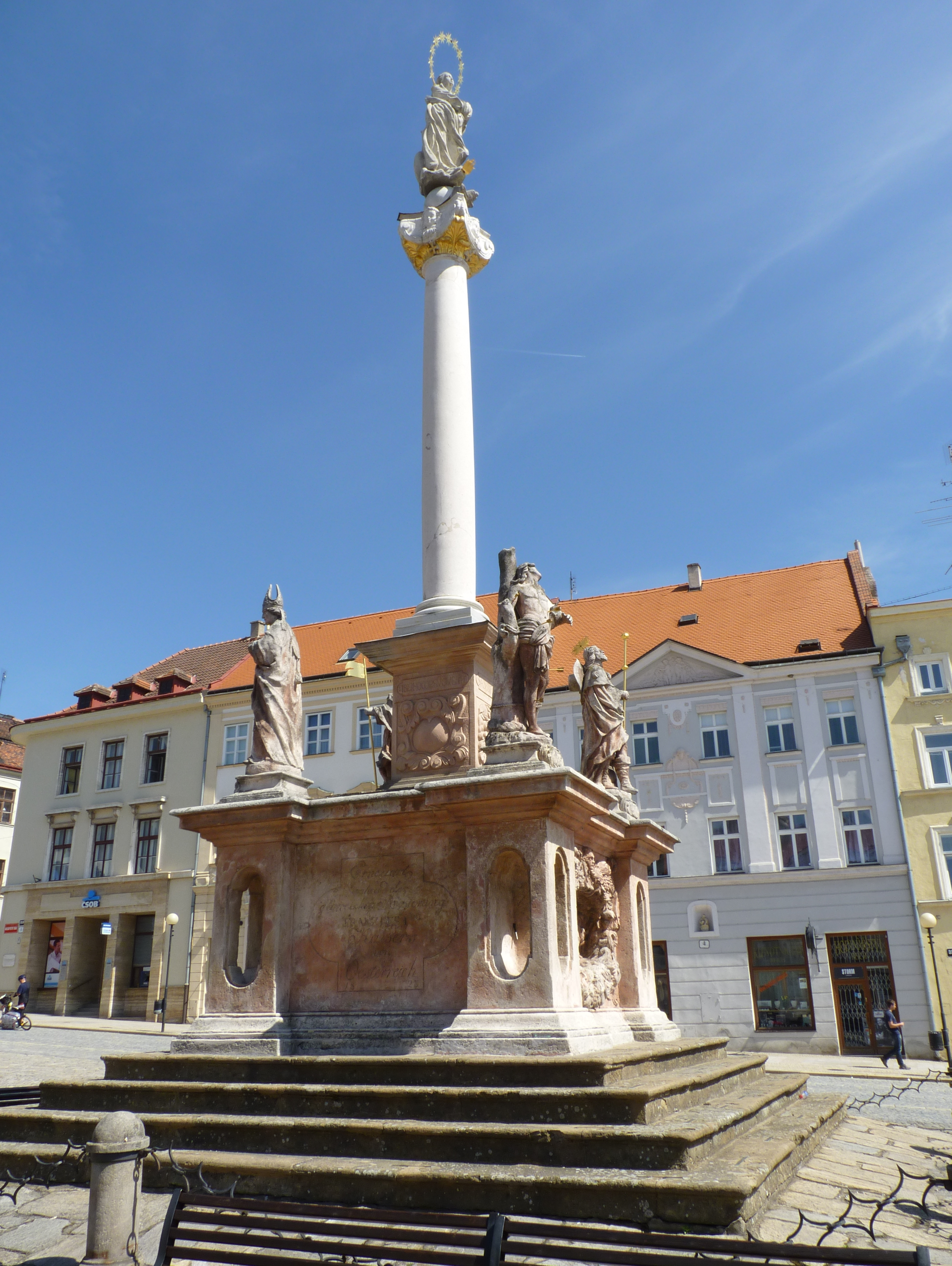 Znojmo, Sout Moravian Region, Czech Republic Project: Chráněná území